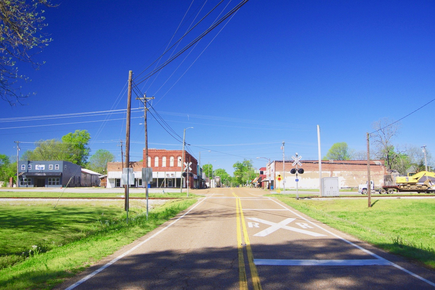 Buildings along Front Street and Main Street in Rutherford, Tennessee, United States.